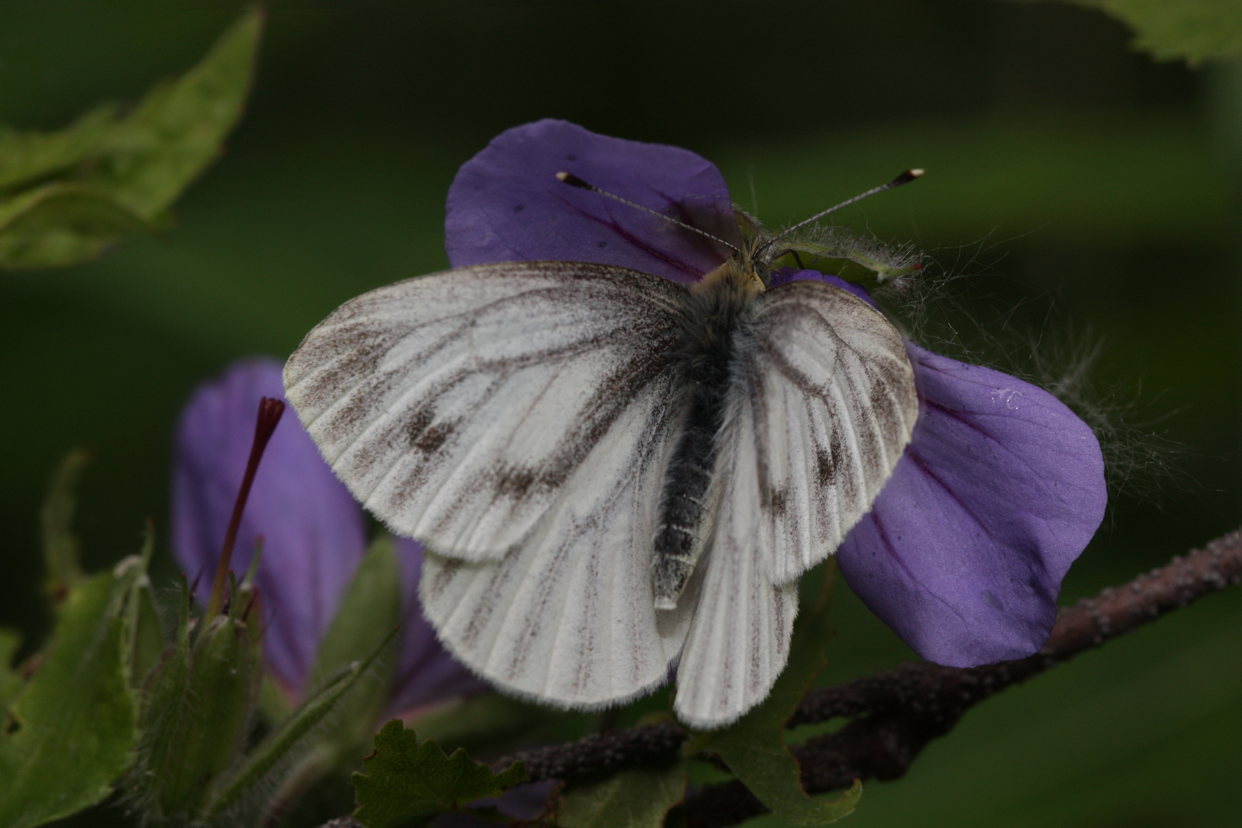 Arctic White on Geranium erianthum; focus stack from other versionsFocus stacking of 2 pictures (using Helicon Focus).